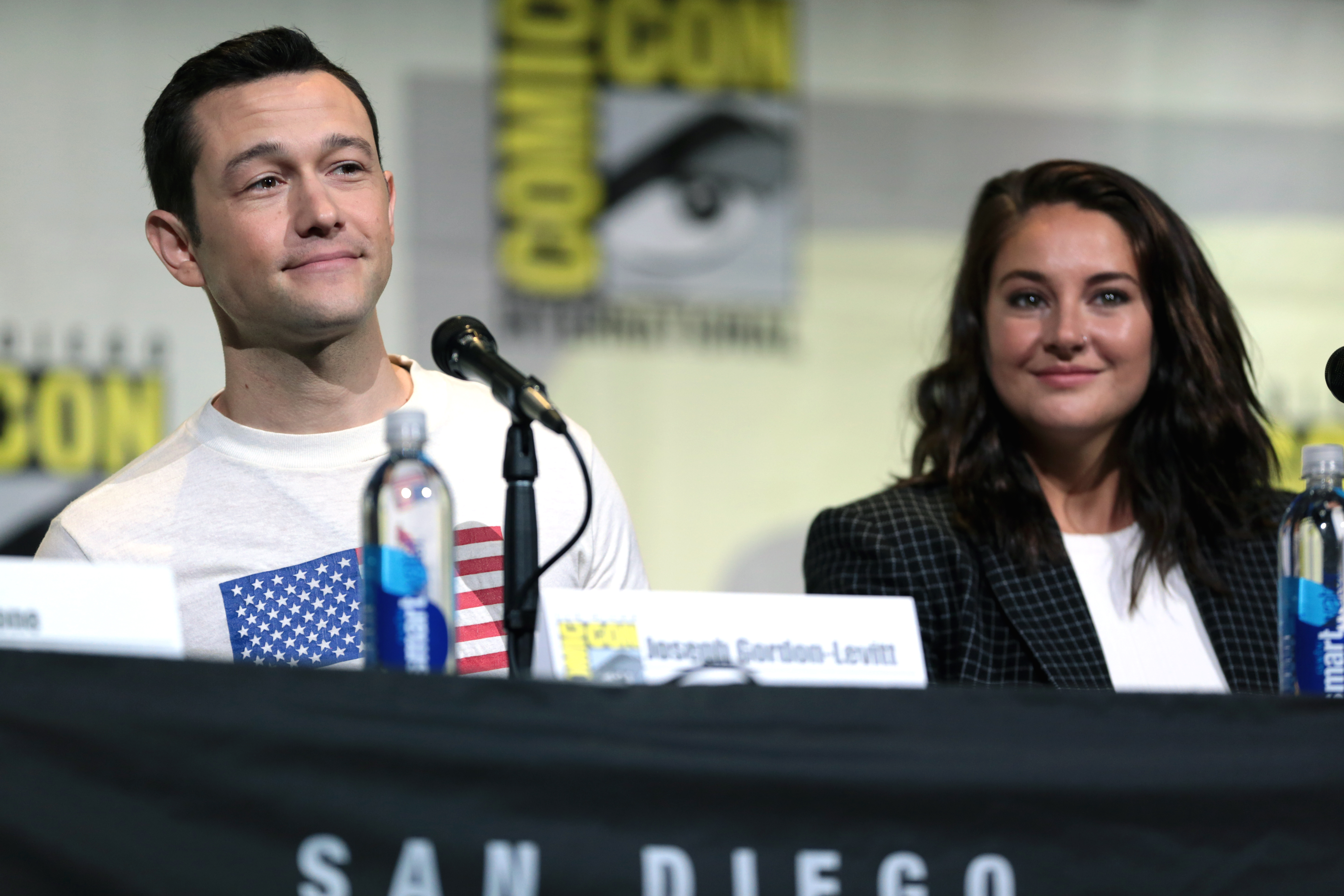 Joseph Gordon-Levitt and Shailene Woodley speaking at the 2016 San Diego Comic Con International, for "Snowden", at the San Diego Convention Center in San Diego, California.